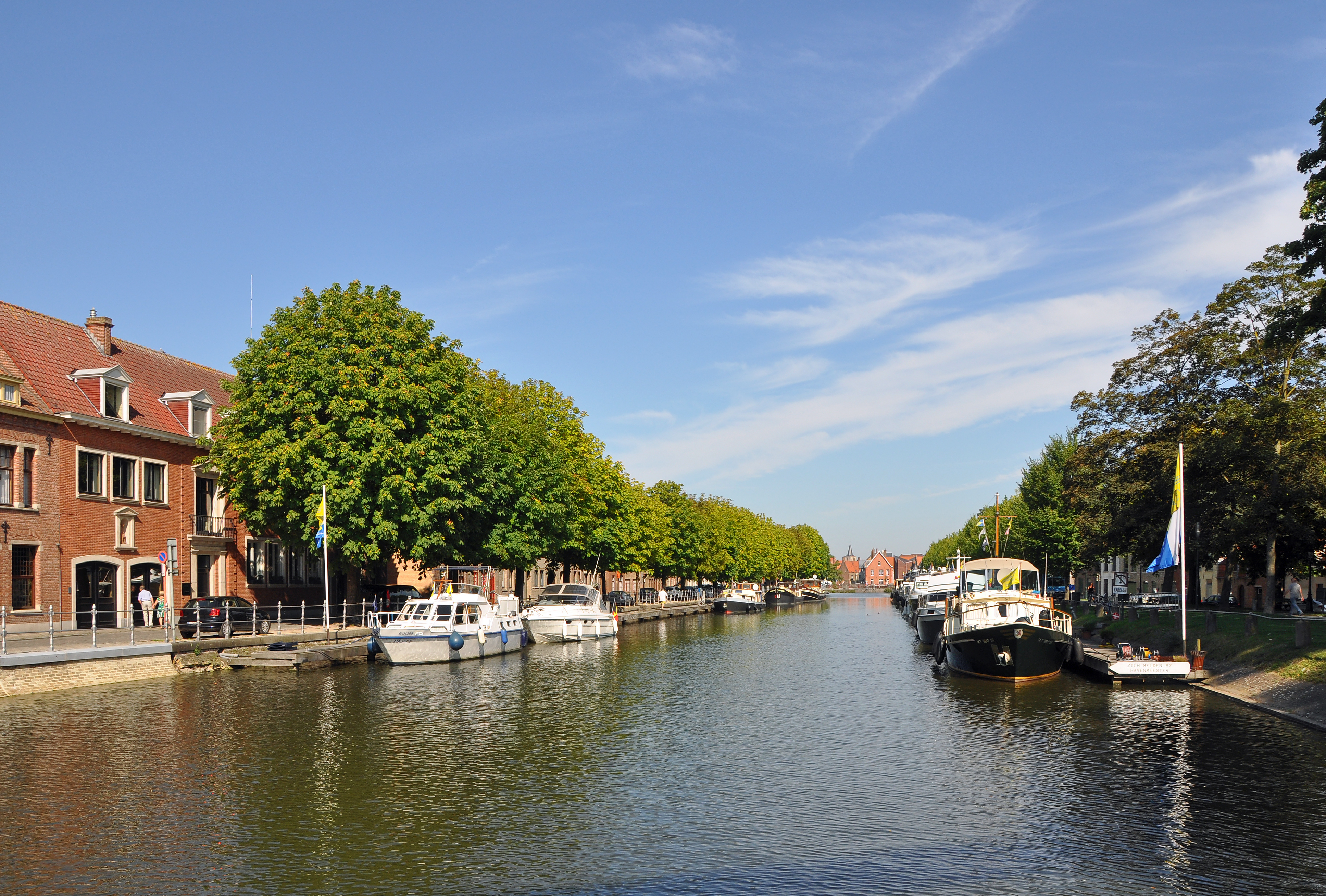 Bruges (Belgium): the Coupure canal